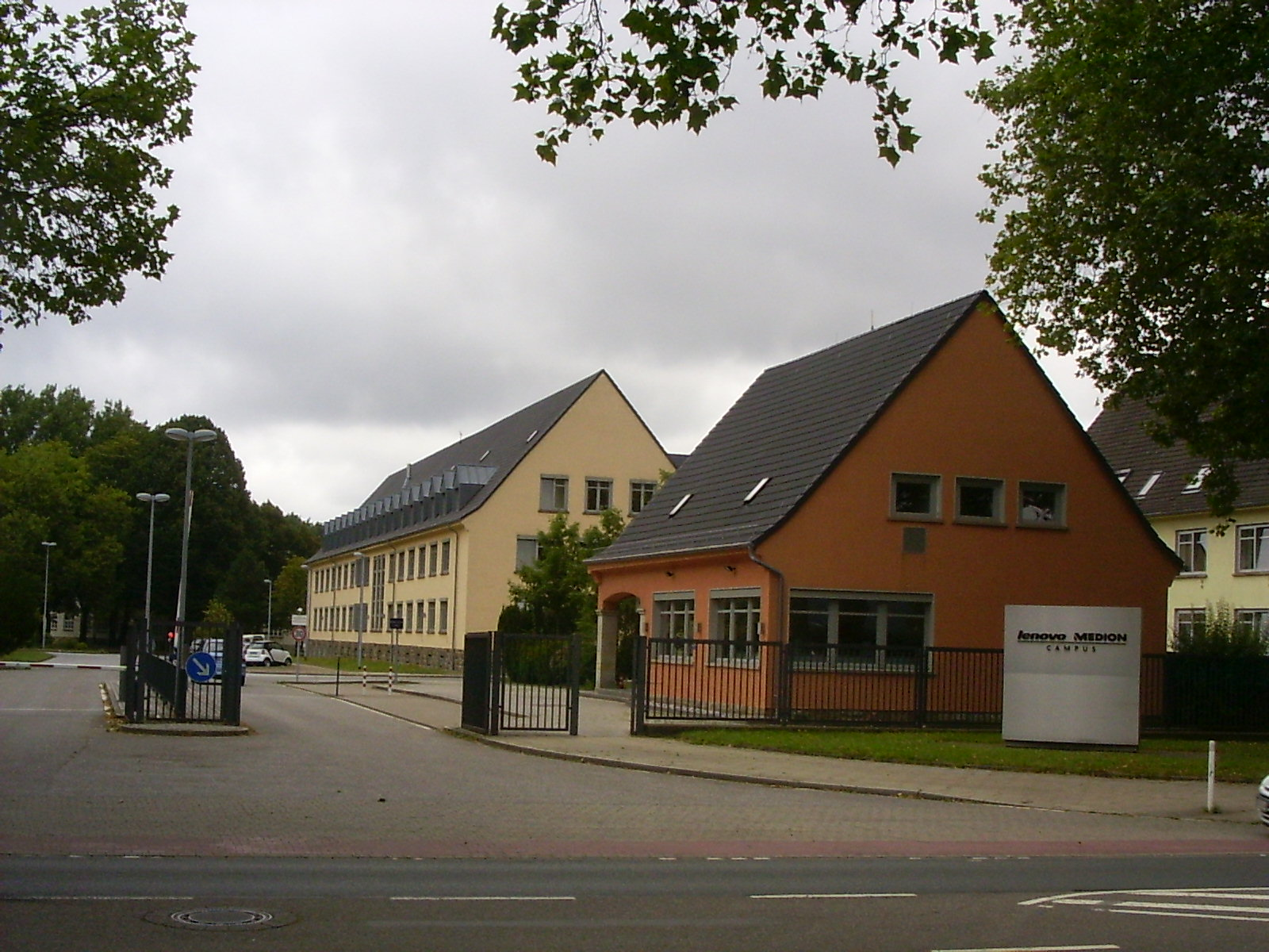 Entrance to the Lenovo-Medion campus, Essen-Kray